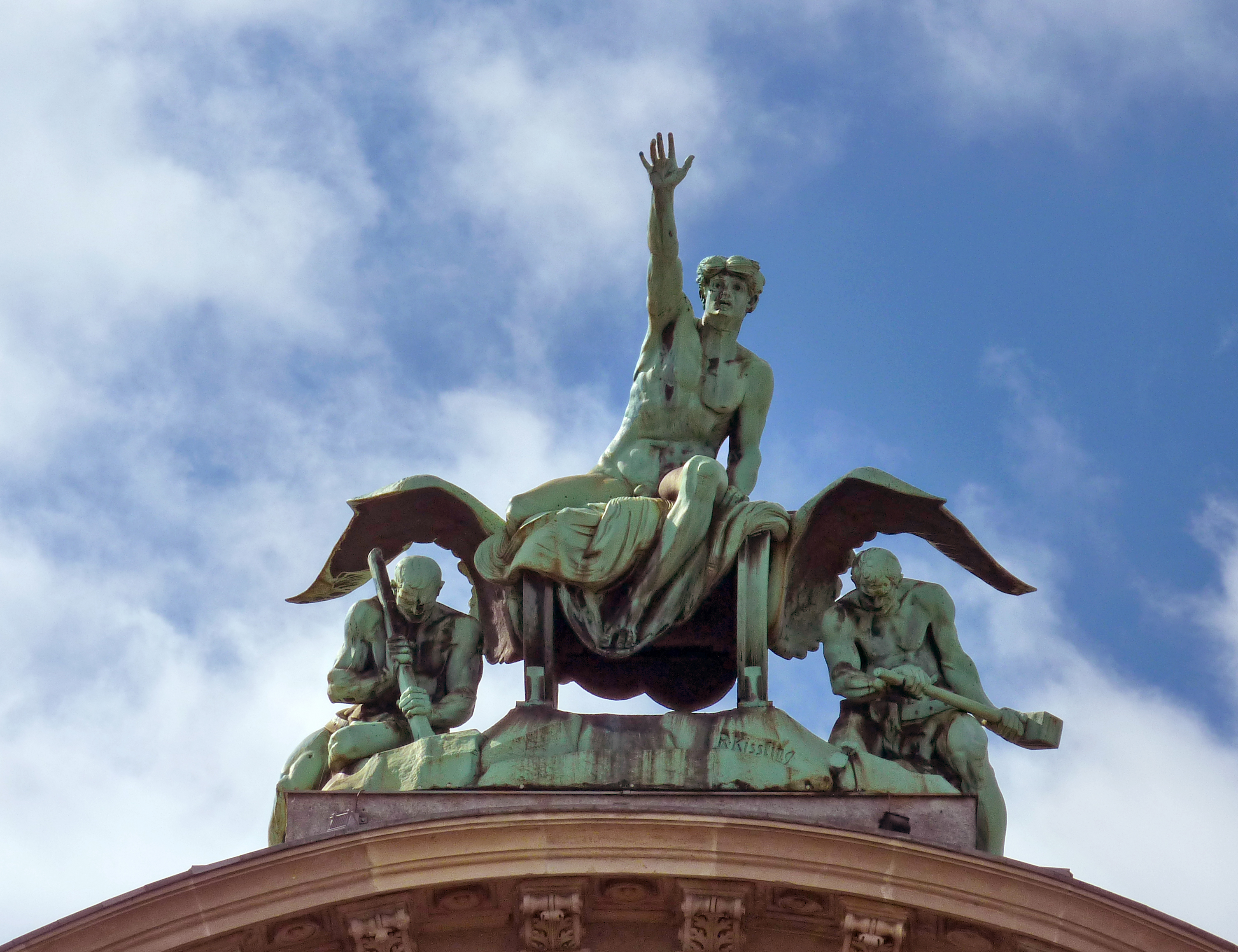 Allegorische Figuren von Richard Kissling auf dem Bahnhof Luzern